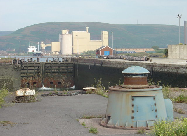 Port Talbot Dock entrance lock Although marked as disused on Magic, clearly the ship in the distance has used it!